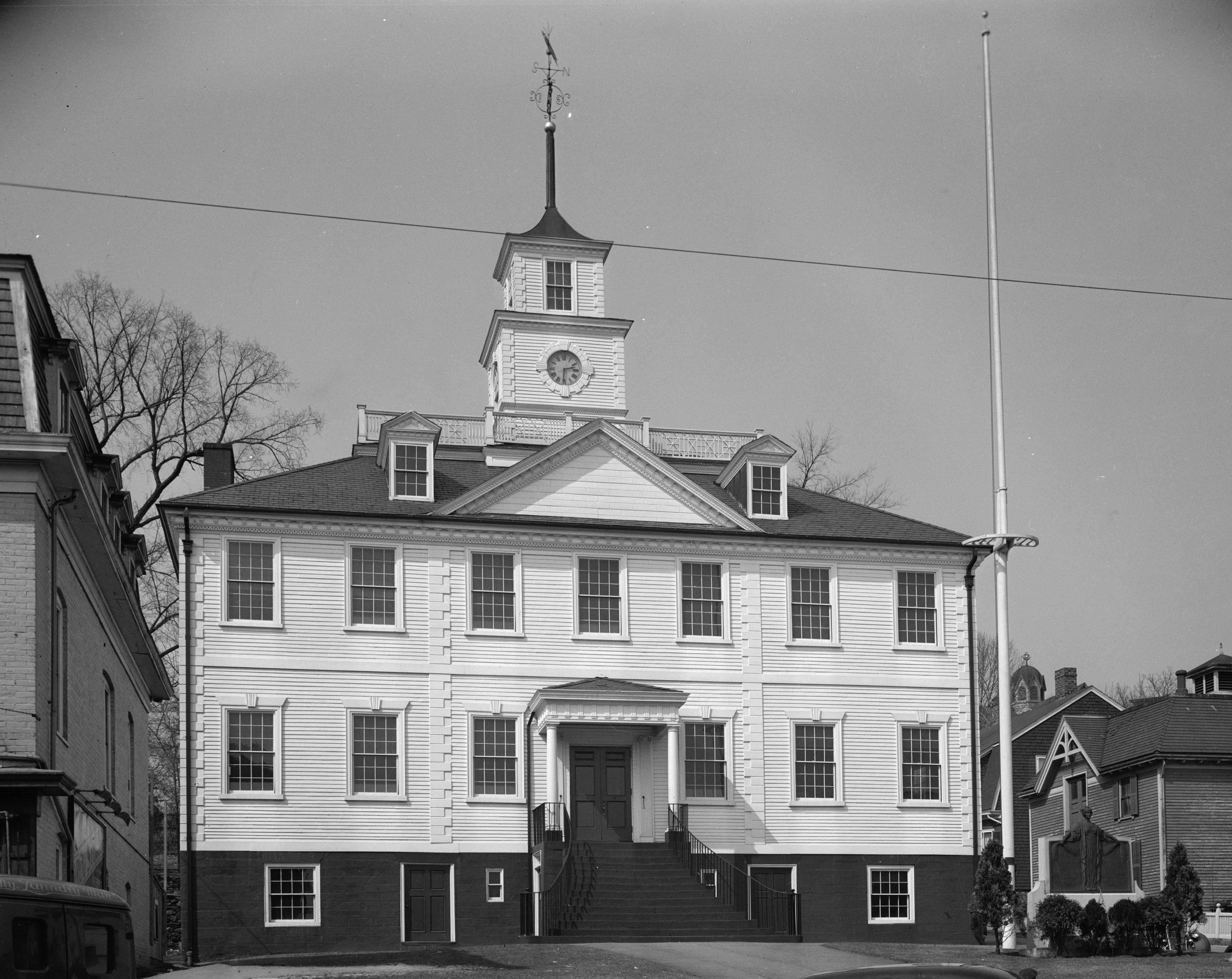 Front of the Kent County Courthouse, located at 127 Main Street in East Greenwich, Rhode Island, United States. Built in 1803, it is listed on the National Register of Historic Places.